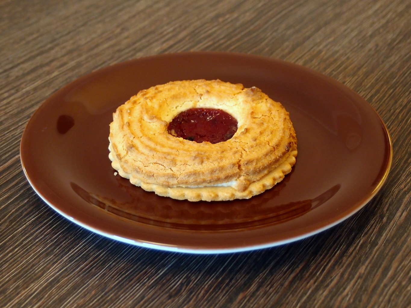 Ochsenauge (ox's eye), a pastry made from a marzipan based mixture piped onto a shortbread base, and filled with jam.